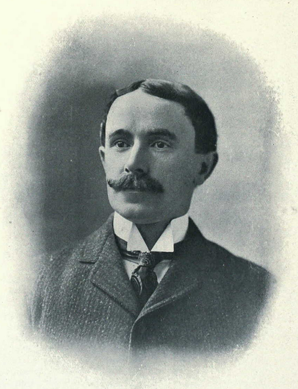 Photograph of Keene Fitzpatrick